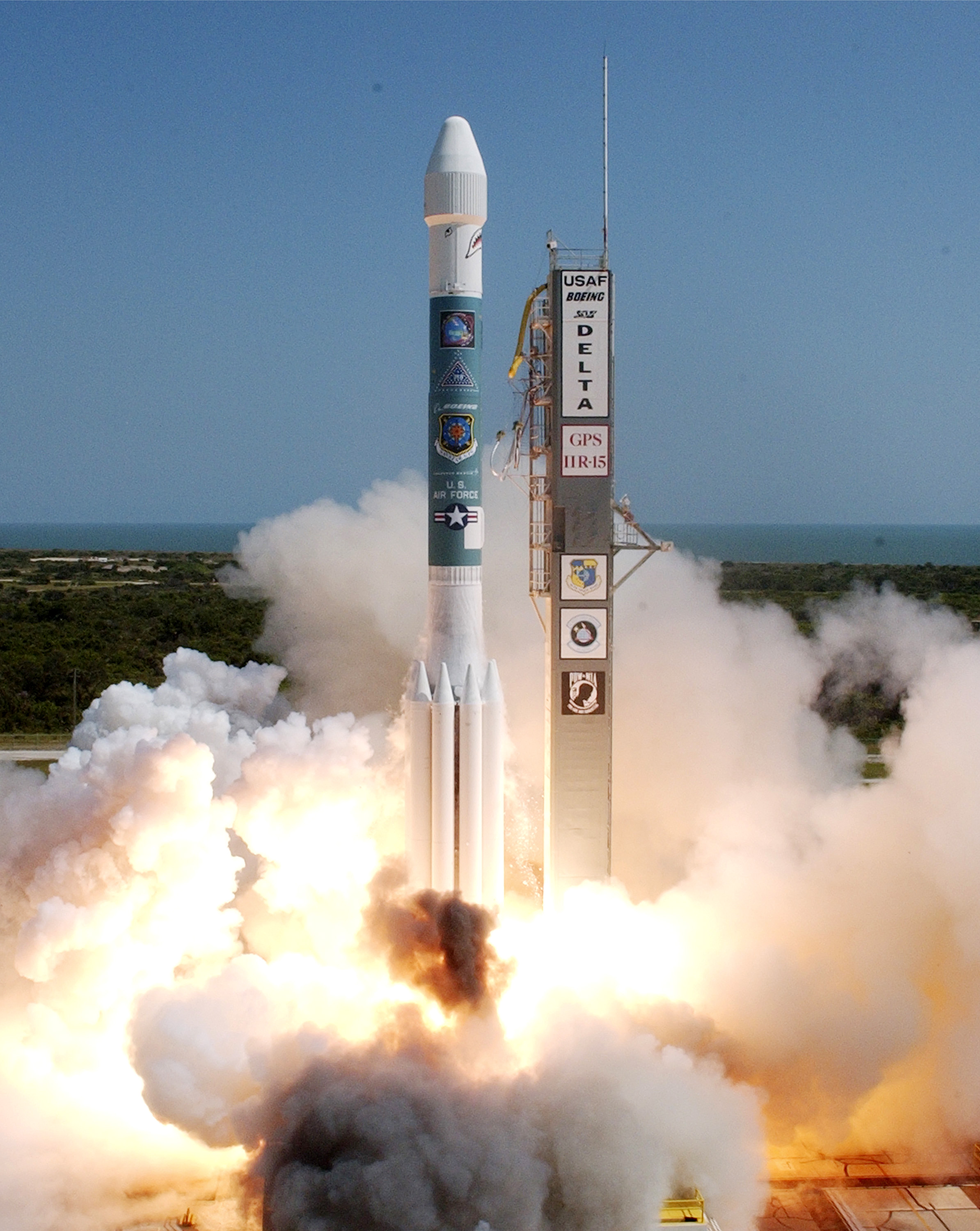 A Delta II space launch vehicle lifts off from Complex 17A at Cape Canaveral Air Force Station, Fla., Sept. 25. It carried a NAVSTAR Global Positioning System satellite into orbit.